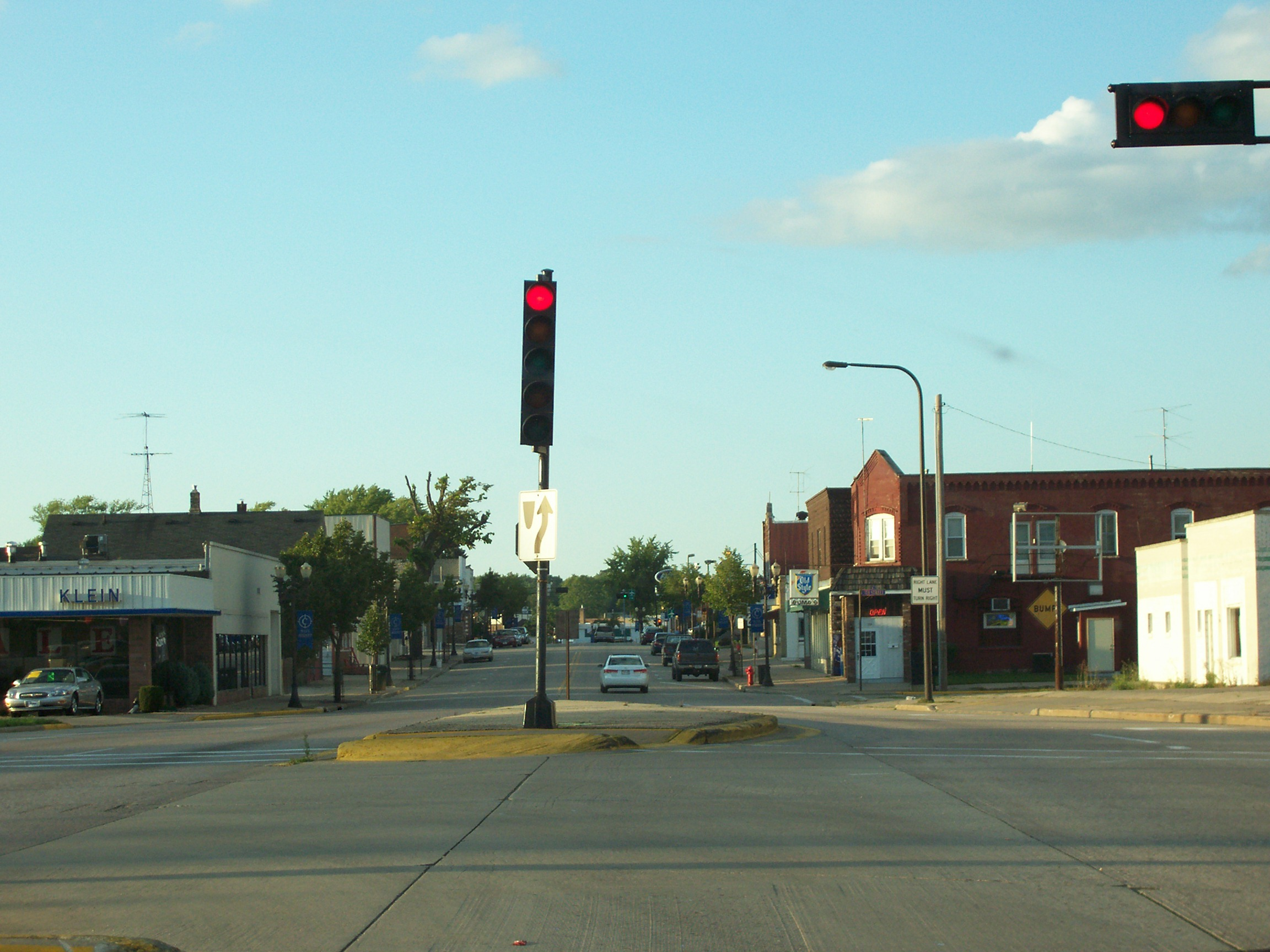 Looking north at Clintonville, Wisconsin, USA at the northern junction of U.S. Route 45 and Wisconsin Highway 22.